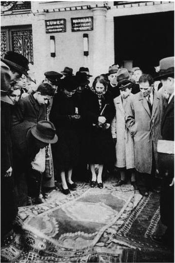 Varlik Vergisi auction (1942)